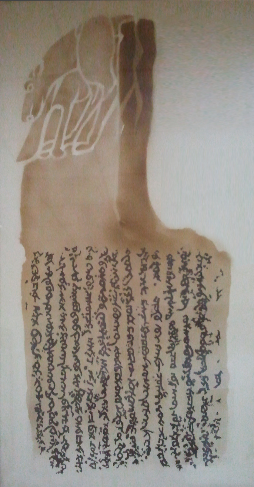 Rubbing of Bugut inscription (dated 585). Vertical Sogdian-type script, language Sogdian. Commissioned by the Turks. Talks about the Turkish khans. Located in Tsetserleg, Arkhangai Province, Mongolia.